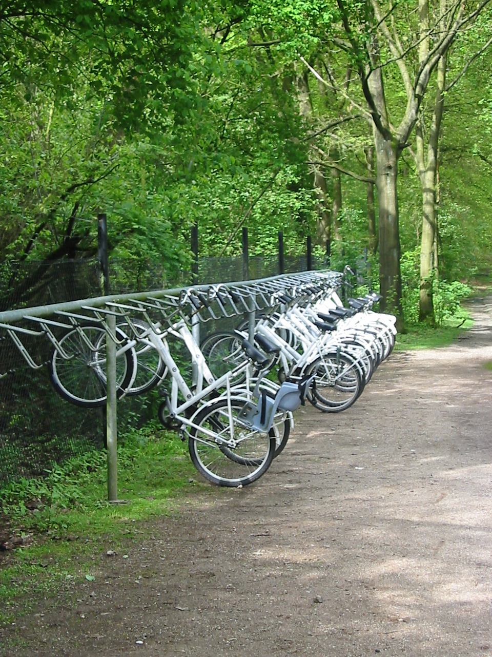 White cycles, for free use, in national park Hoge Veluwe, the Netherlands, May 2005, picture by User:Ellywa